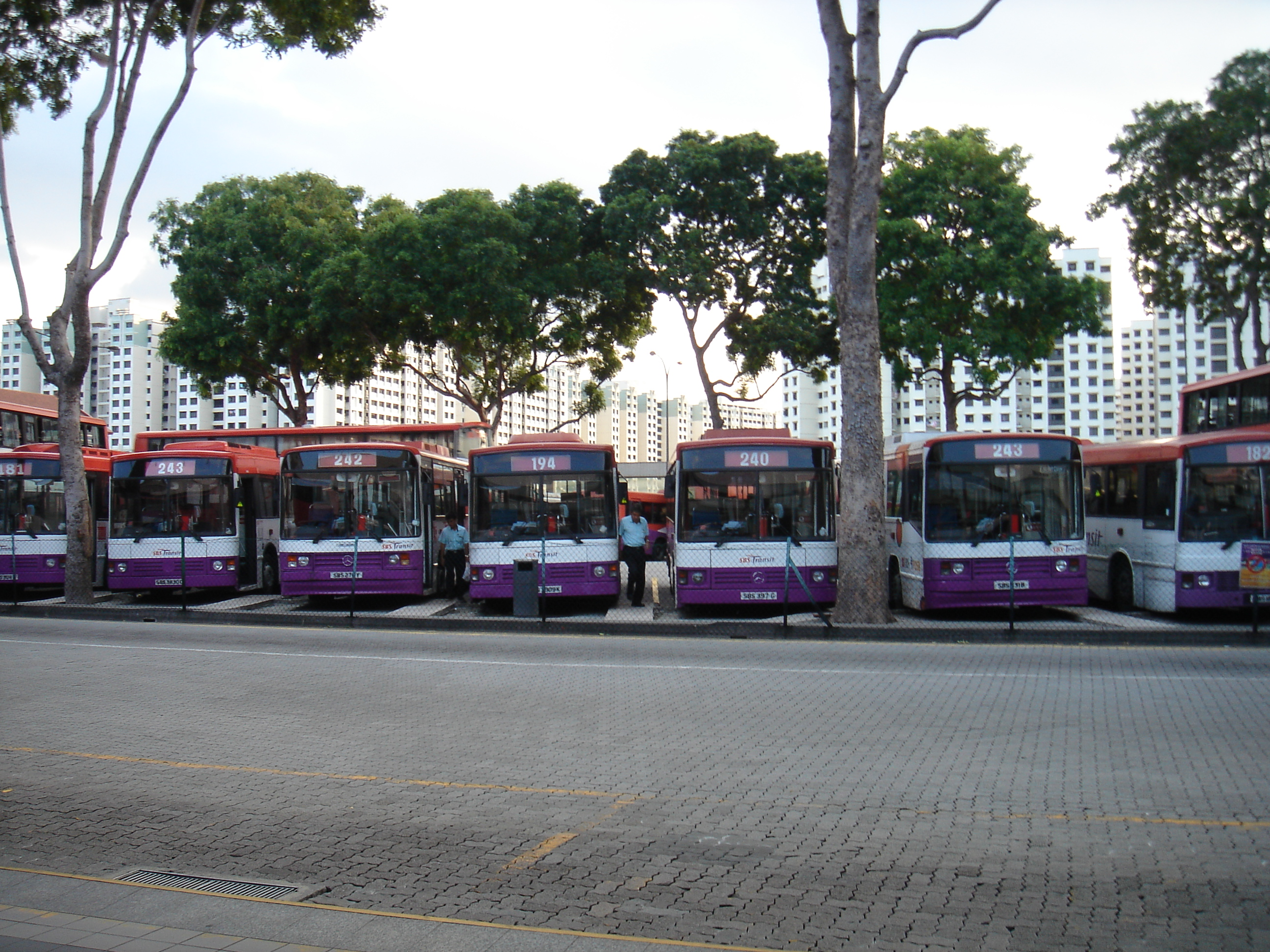 Fleet of SBS Transit buses parked at Boon Lay Interchange, Singapore (which has since been demolished). For example: Duple Metsec OAC bodied Mercedes-Benz O405 (SBS397G, line 240, built 1990, 1991 or 1992).